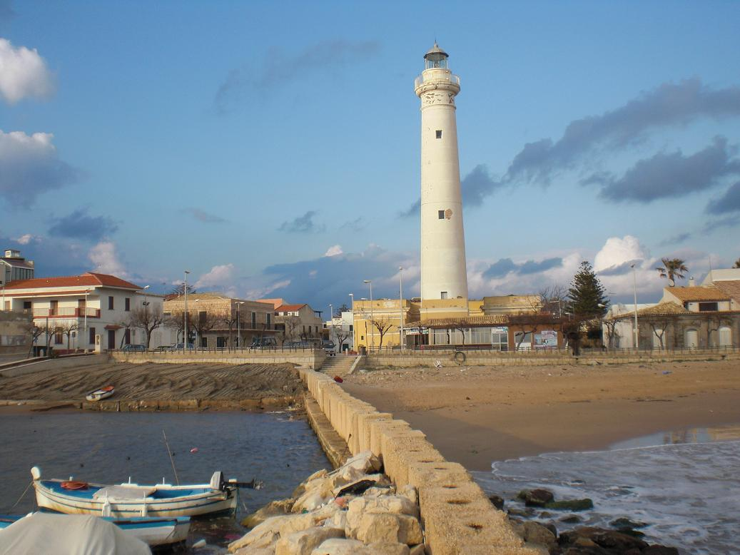 Lighthouse in Punta Secca, Ragusa, Sicily.